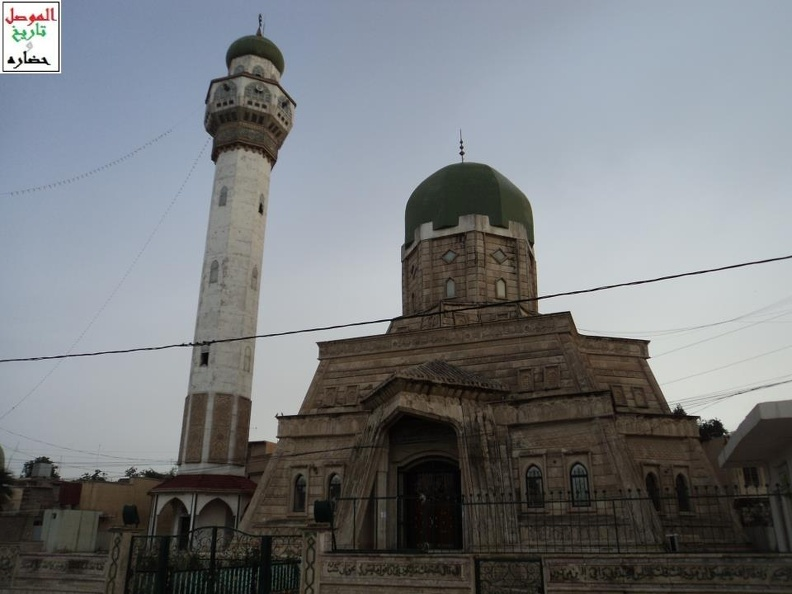 manaras